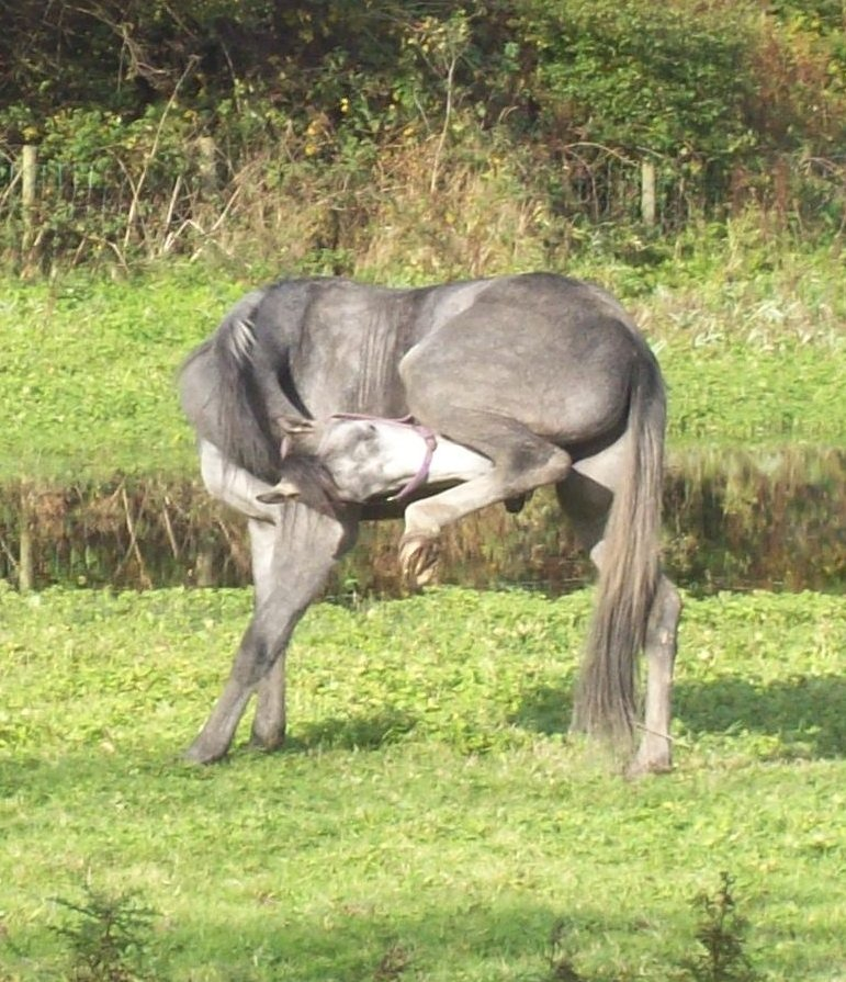 A grey horse grooming.